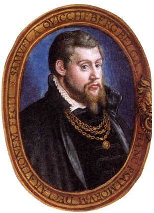 Portrait of Samuel Quiccheberg